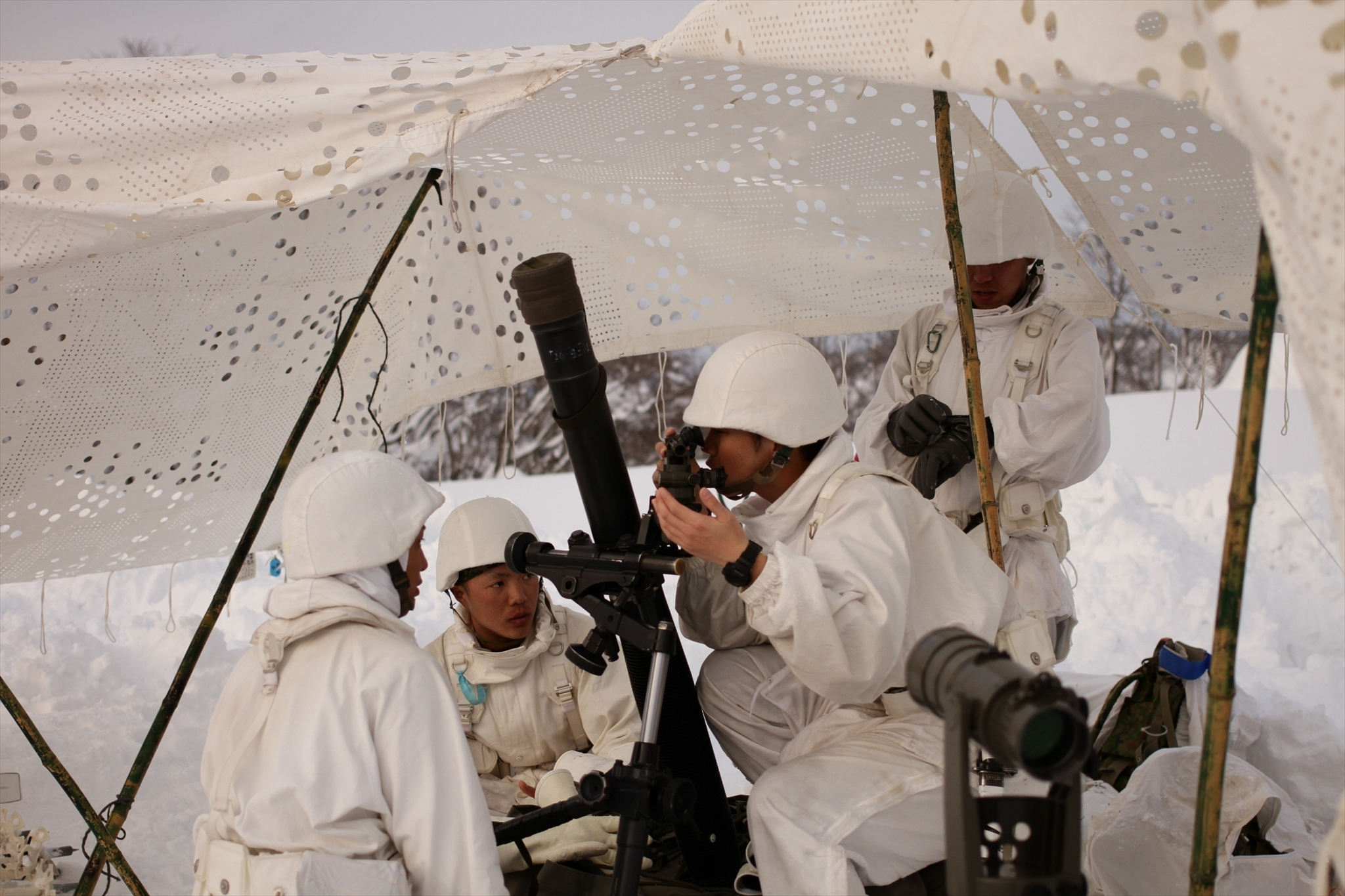 Title ８１ｍｍ迫撃砲Ｌ１６25.02.26~27 ２０ｉ・４中隊冬季検閲「照準よし！」.JPG ([Unit of the Japan Ground Self-Defense Force training with a 81 mm mortar) Album 装備 ８１ｍｍ迫撃砲Ｌ１６（冬季訓練検閲・第２０普通科連隊）